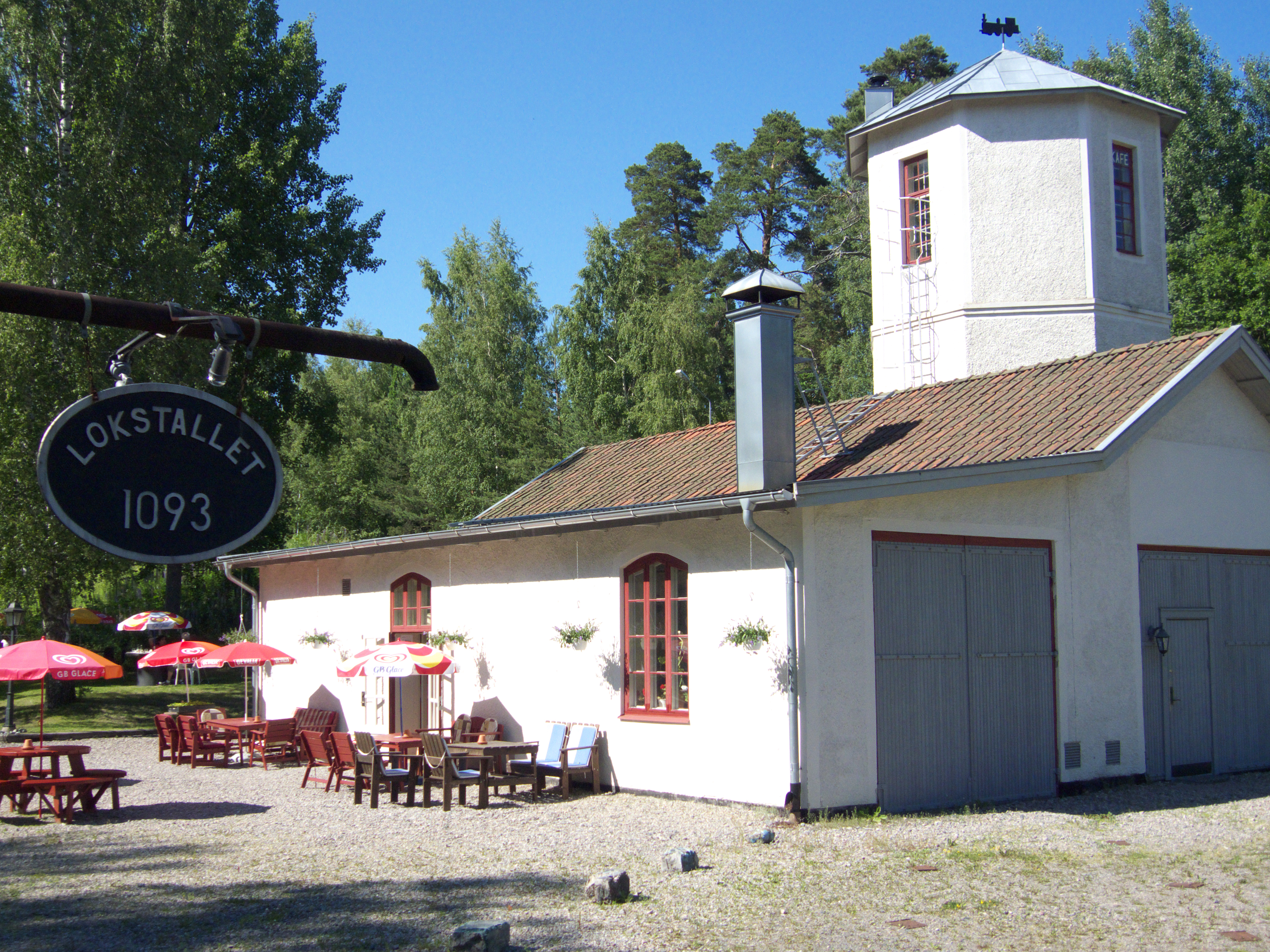 Former engine shed at Riddarhyttan.